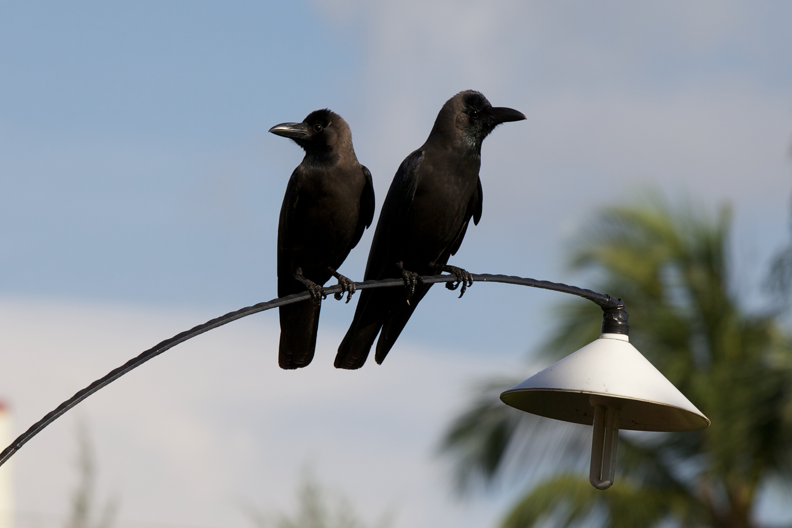 A pair of Ceylon House Crows (Corvus splendens protegatus) in Kochchikade, Sri Lanka